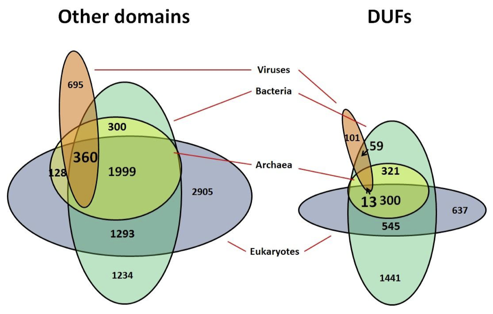 Protein domain repertoires of the 4 superkingdoms of life. Left: Annotated domains. Right: domains of unknown function. Not all overlaps shown. Based on PFAM v26 and Goodacre et al. 2014, mBio 5 (1): e00744-13